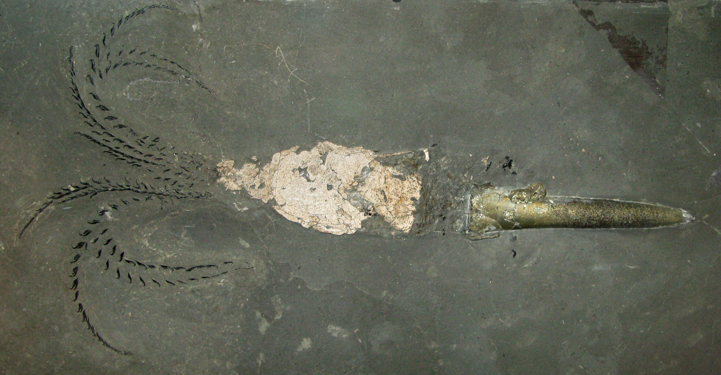 Belemnite Passaloteuthis bisulcata (Blainville, 1827) with partial preservation of soft parts (center) as well as arm hooks “in situ” (left), recovered from the Posidonia Shale (Lias ε, Lower Toarcian) of Ohmden, Baden-Württemberg, southern Germany, on display at the Museum am Löwentor, Stuttgart[1] ↑ a b cf. plate A (p. 93), fig. 1 in: Rudolf Schlegelmilch (2014): Die Belemniten des süddeutschen Jura: Ein Bestimmungsbuch für Geowissenschaftler und Fossiliensammler. Springer, ISBN 978-3-8274-3083-0.